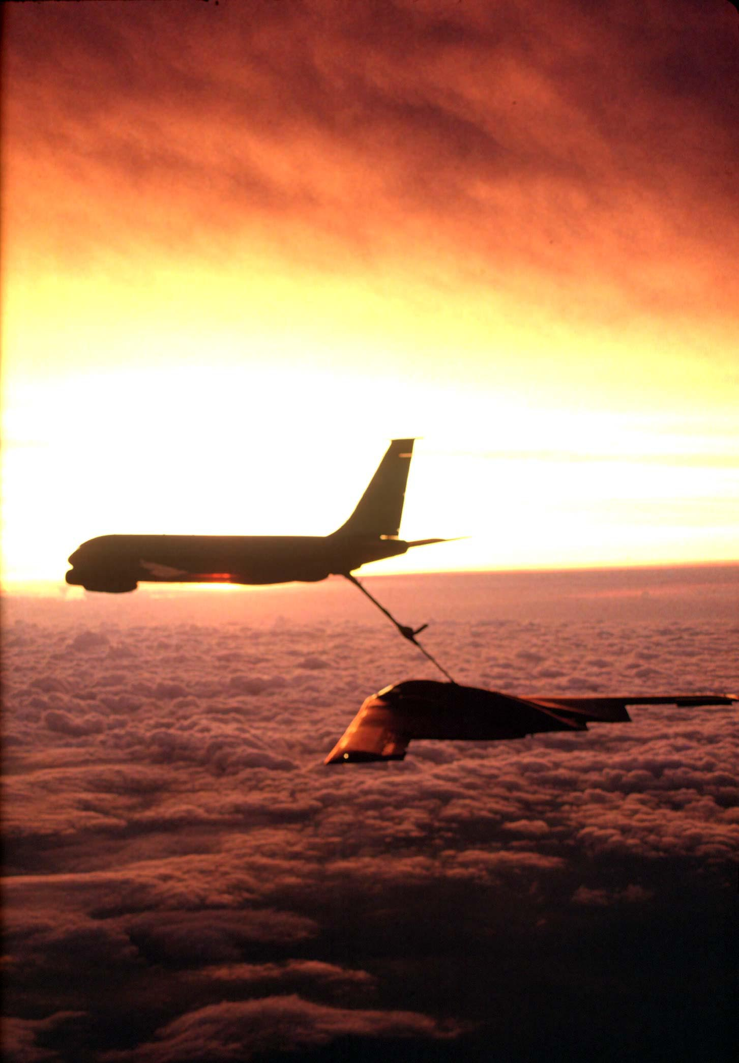 FILE PHOTO -- A KC-135 Stratotanker from the 22nd Air Refueling Wing, McConnell Air Force Base, Kan., refuels a B-2 Spirit from the 509th Bomb Wing, Whiteman Air Force Base, Mo. The 22nd ARW's primary mission is to provide Global Reach by conducting air refueling and airlift where and when needed. (U.S. Air Force photo by Senior Master Sgt. Rose Reynolds)